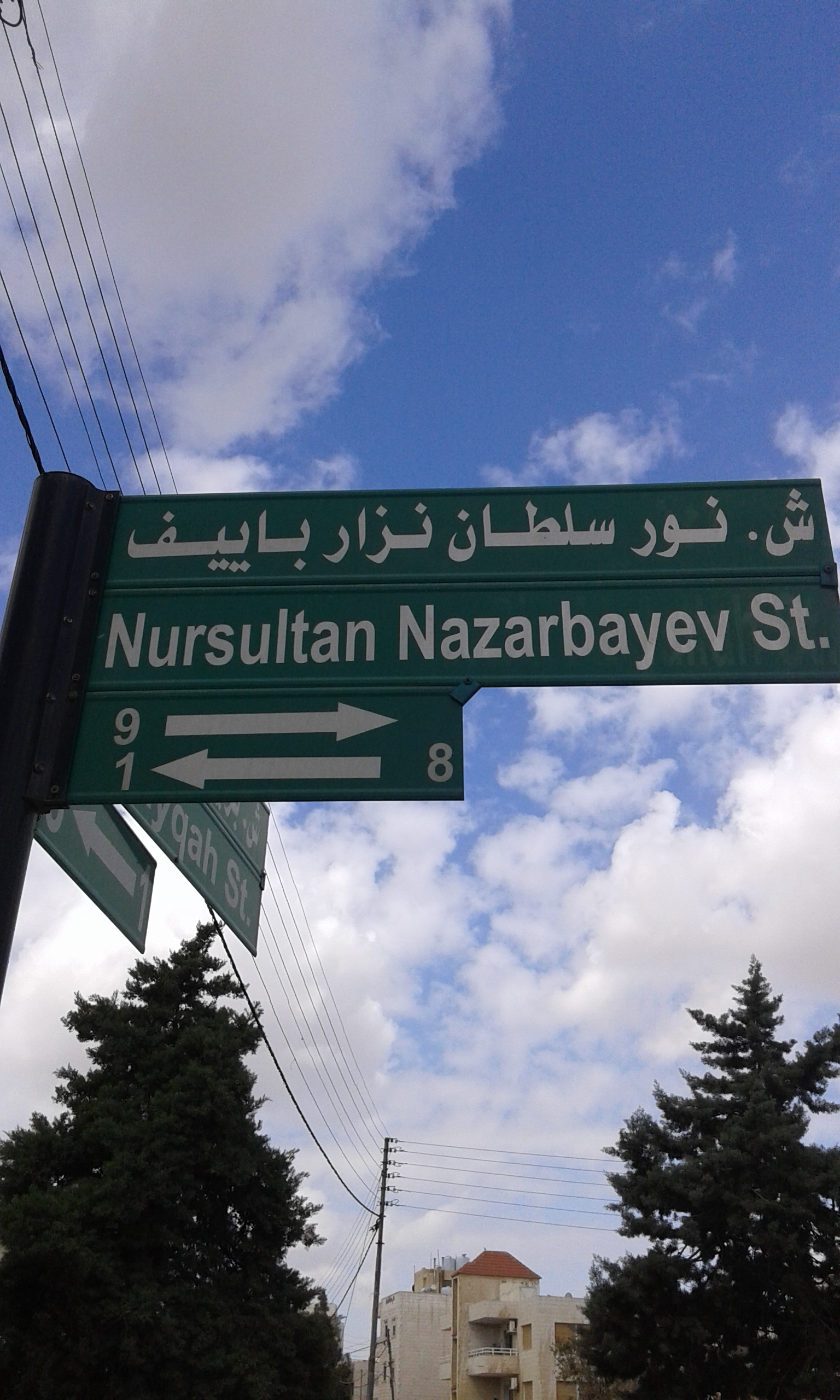 Road sign on Nursultan Nazarbayev street in Amman, Jordan.